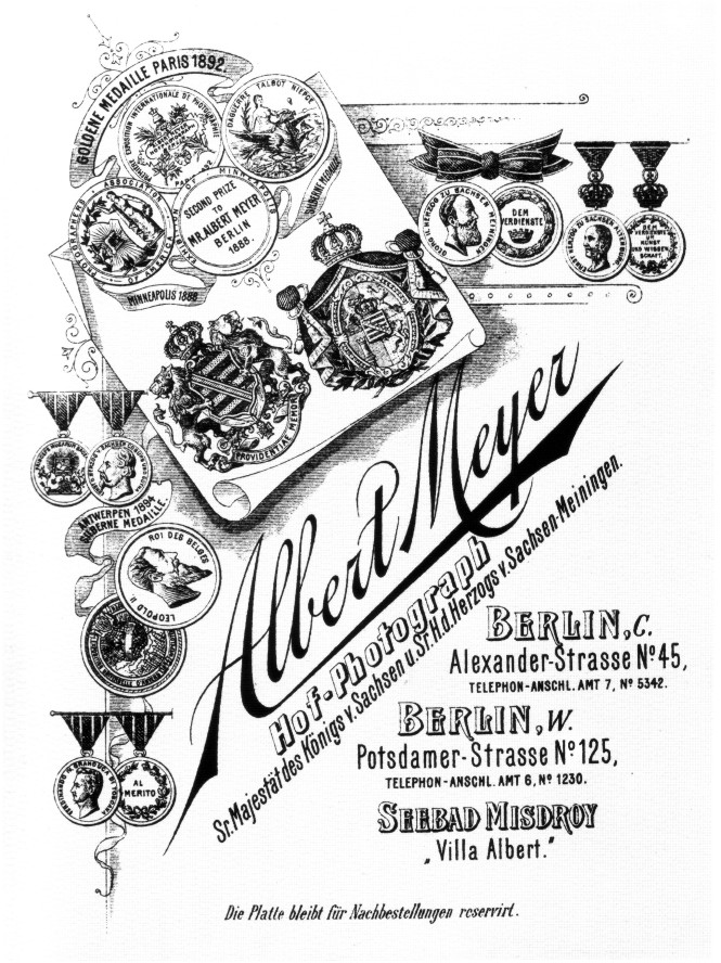 Albert Meyer´s advertising on the backsides of his photographs in 1896.